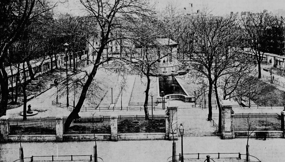 A view of James J. Walker Park, called St. John's Park from 1897-1947, looking east from Hudson Street